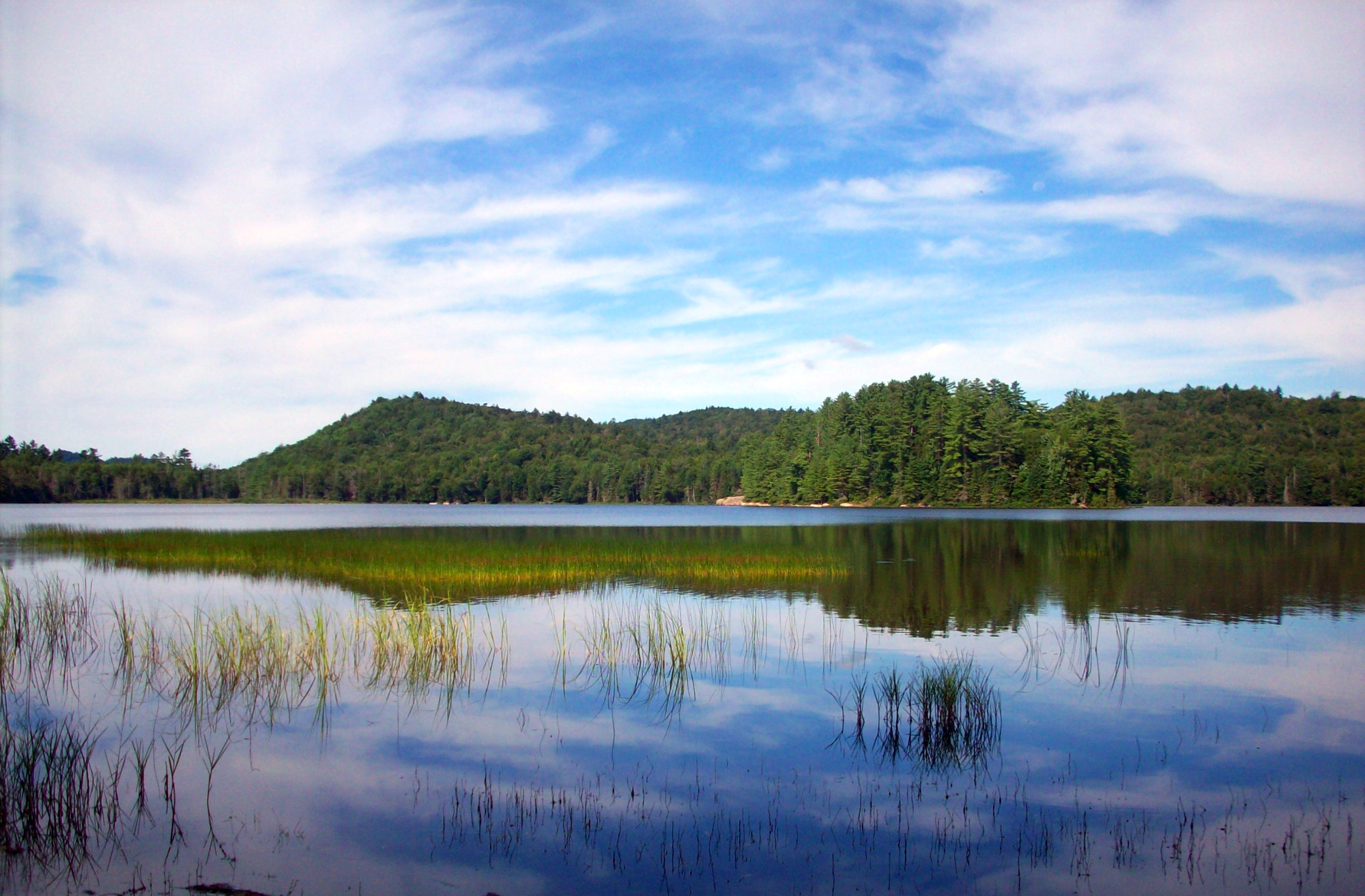 Browns Tract Pond in Raquette Lake, NY. Object location43° 48′ 15.23″ N, 74° 42′ 16.61″ W